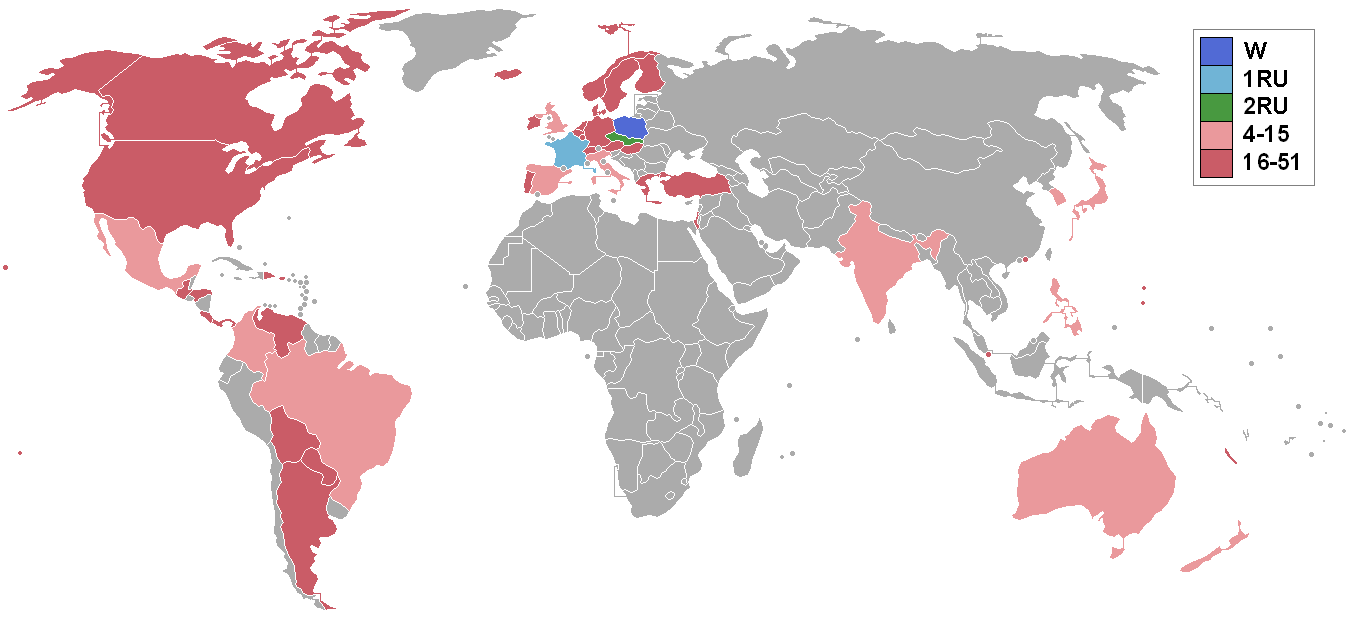 ms international 1991 results map